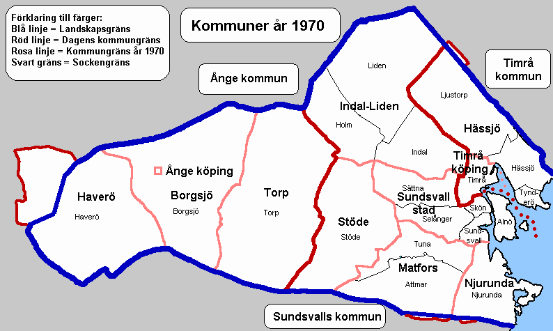 old municipalities of Medelpad